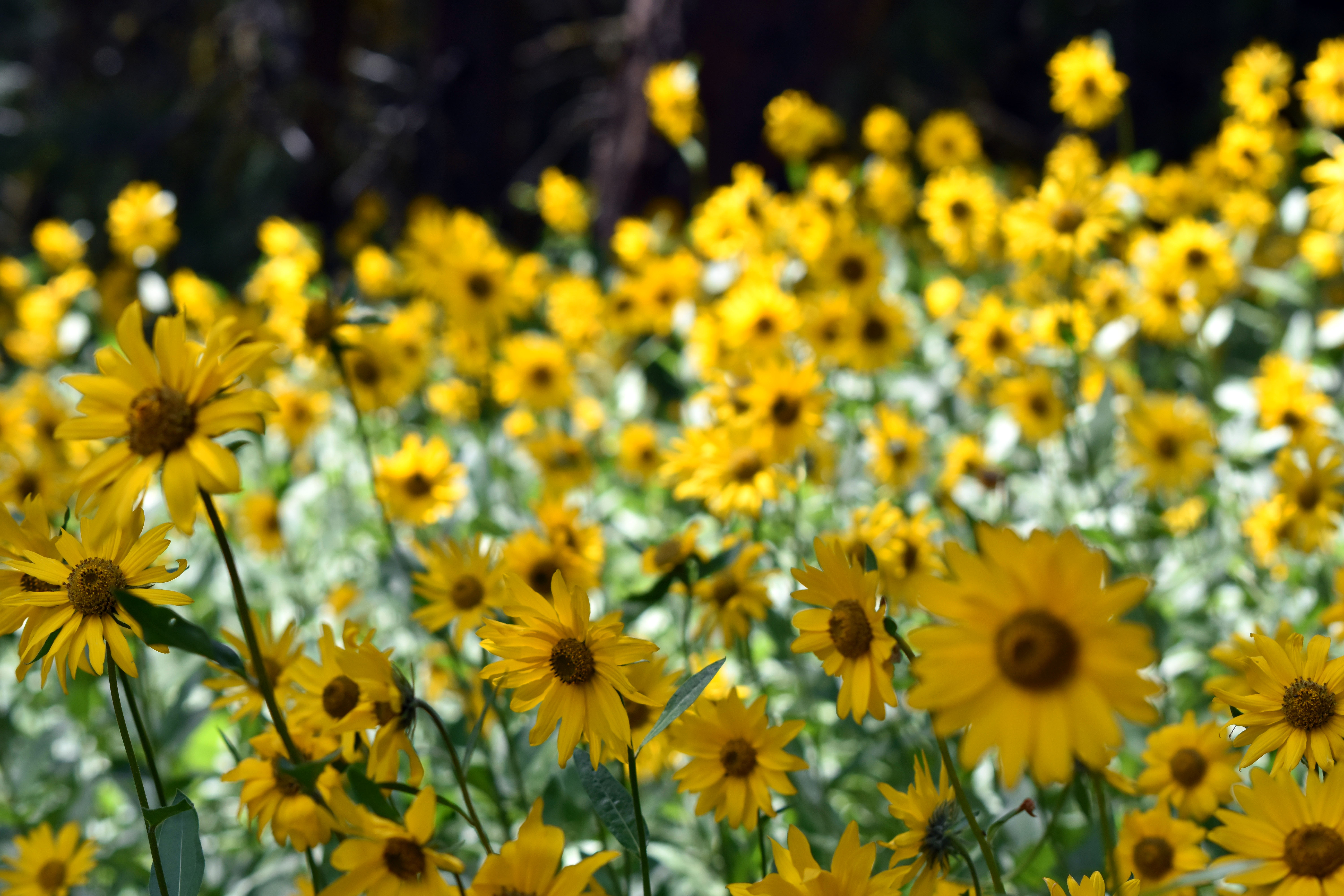 Wildflowers above Mazama on the Spokane Gulch Trail.